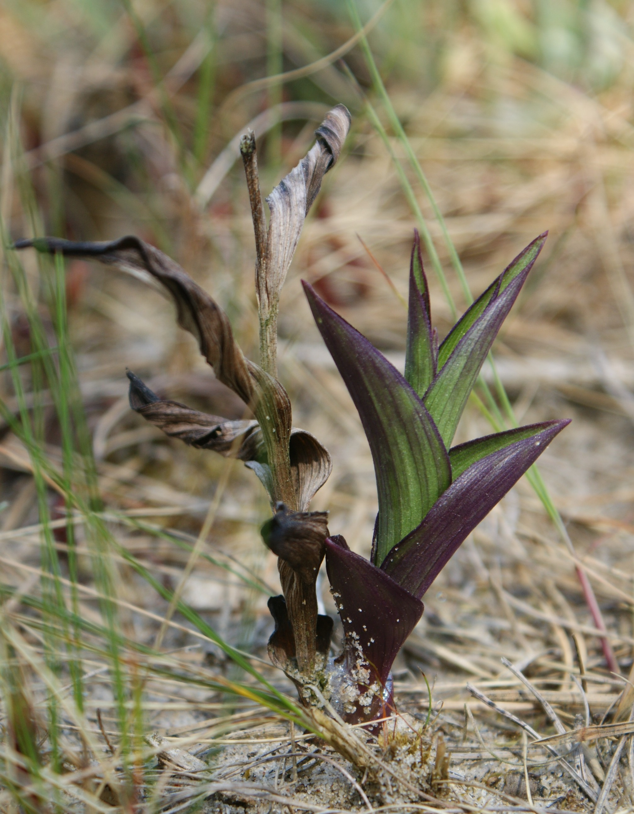 Epipactis atropurpurea, young and last year's shoot